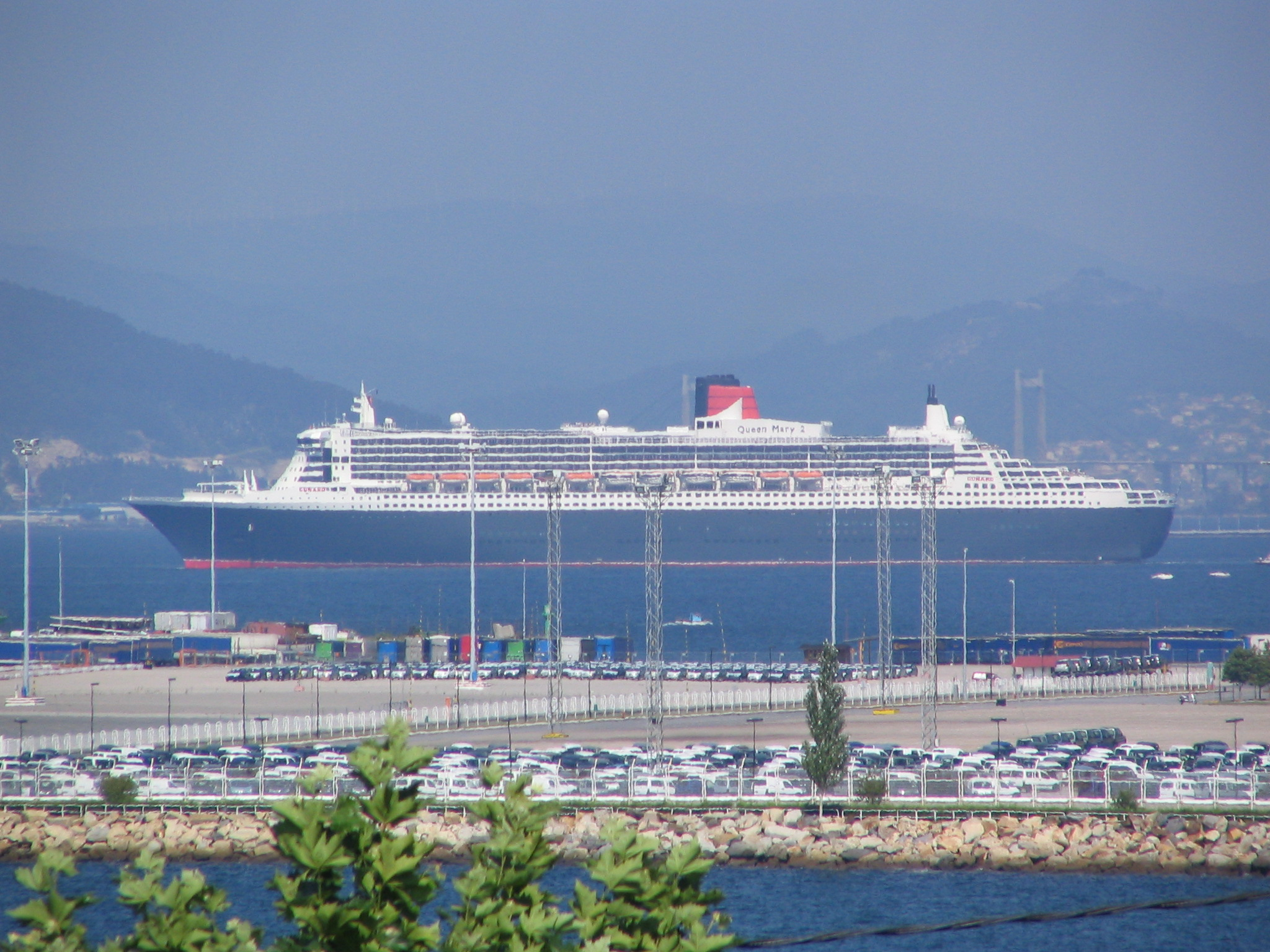 Queen Mary 2